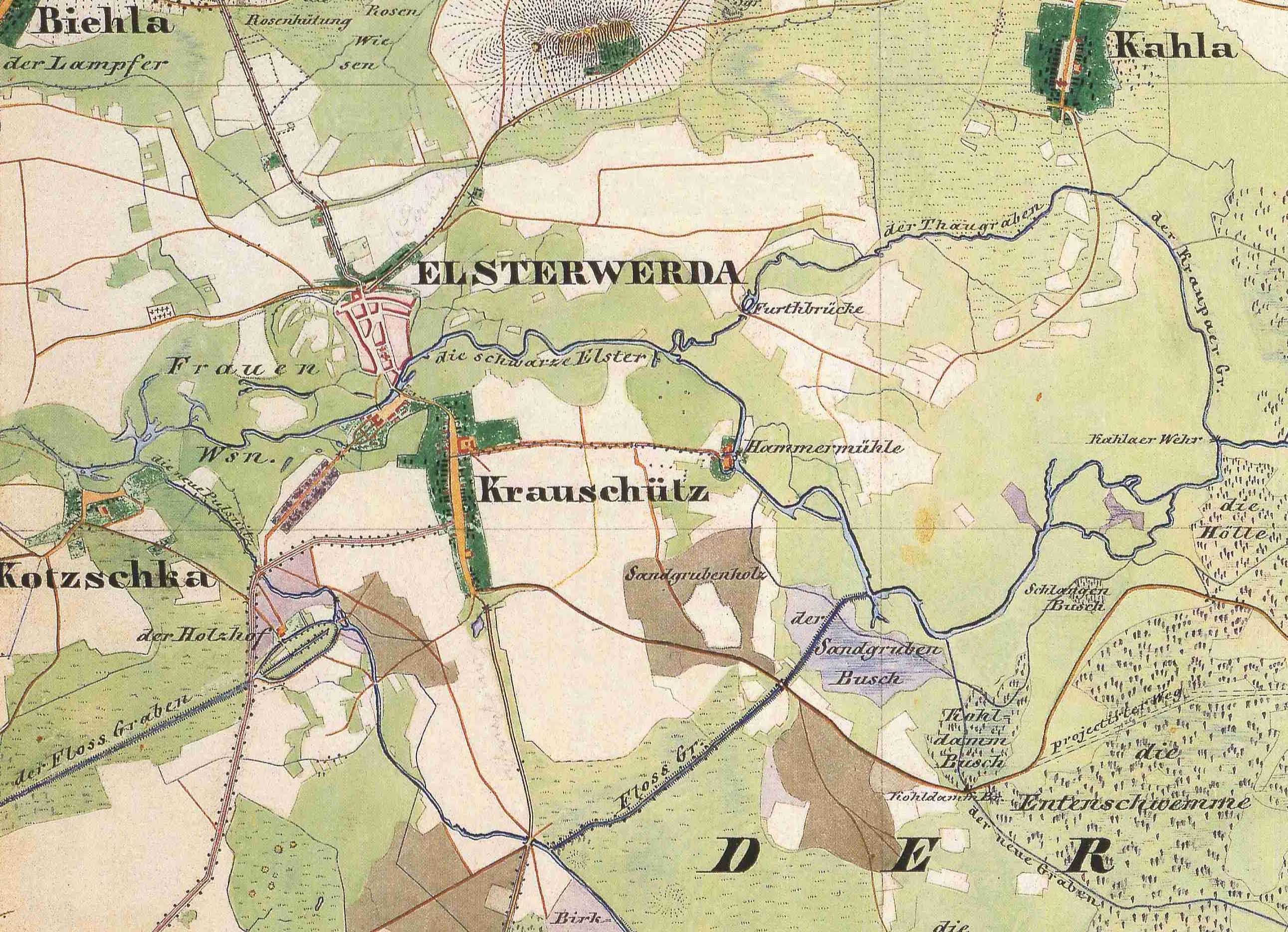 Elsterwerda, Lkr. Elbe-Elster, Brandenburg, Germany, detail from the Urmesstischblatt Sheet 4547 Elsterwerda, drawn in 1841